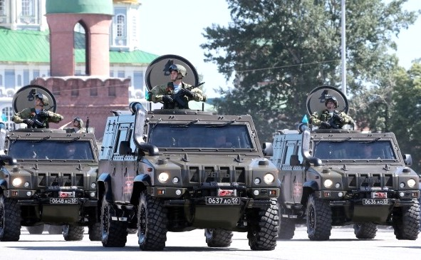 2020 Moscow Victory Day Parade Аҧсшәа: Военный парад на Красной площади в Москве 24 июня 2020 года